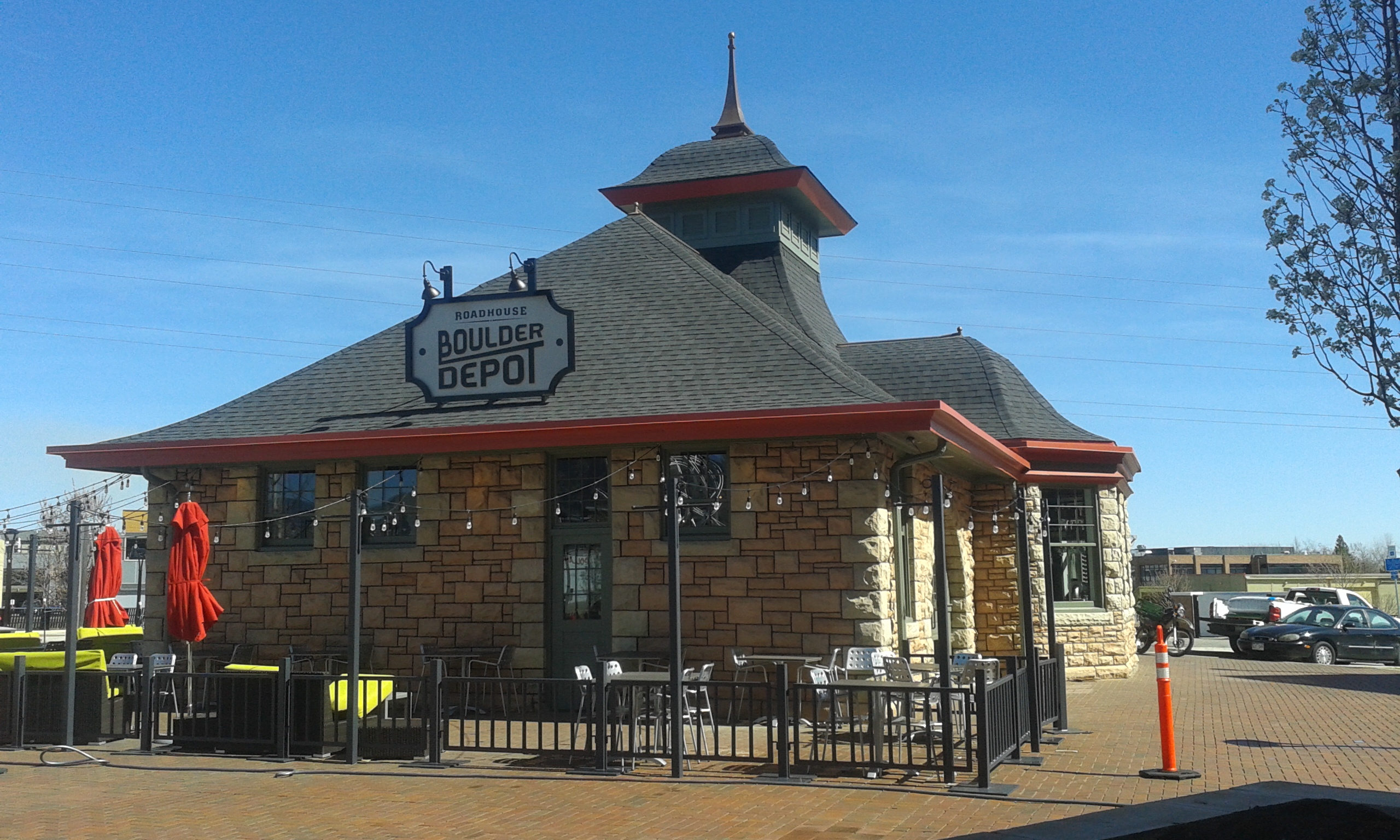 Roadhouse Boulder Depot, SW facade